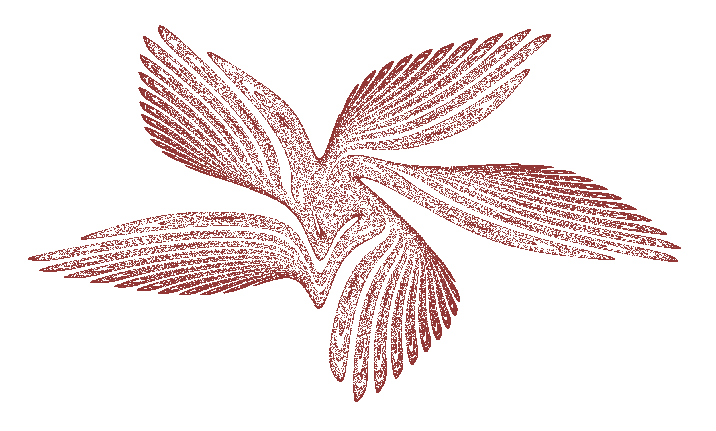 Strange attractor of Gumowski-Mira. The used map and parameters are the same as File:GM map phase space plot 2.png.